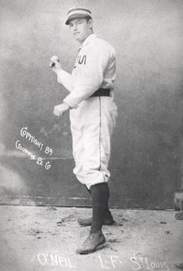 Baseball player Tip O'Neill